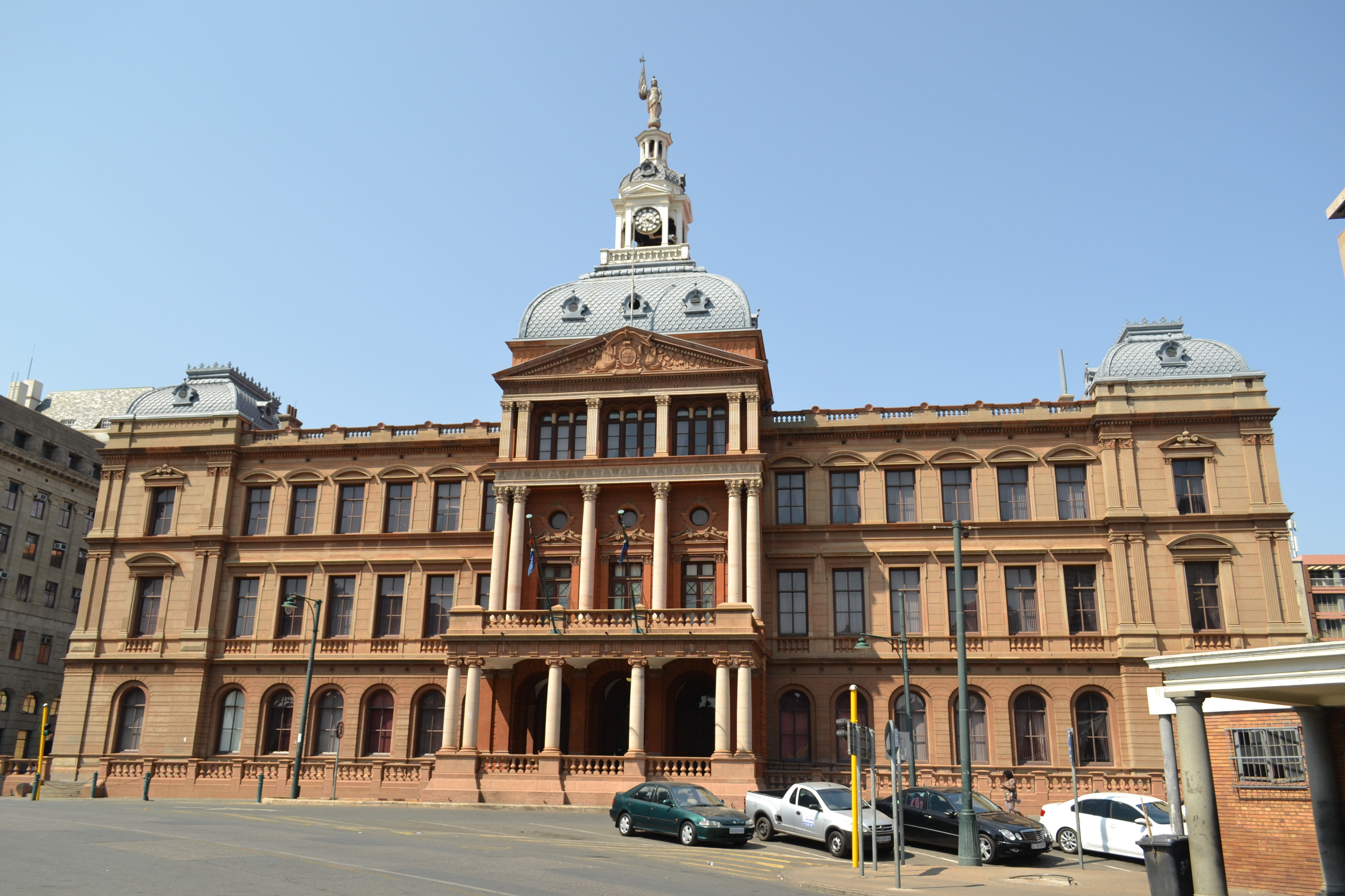 Old Raadsaal, Church Square Pretoria This media shows a South African Protected Site with SAHRA file reference 9/2/258/0023 .